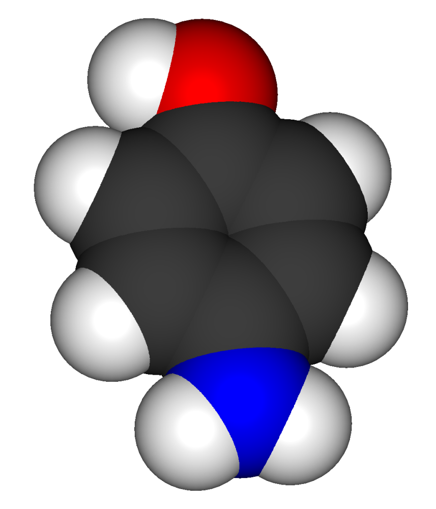 Space-filling model of 4-aminophenol. Created using Accelrys DS Visualizer Pro 1.6 and GIMP.